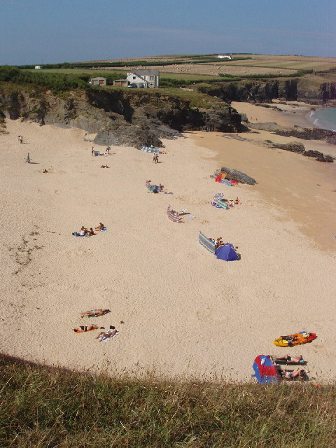 Mother Ivey's Bay. Looking west across the top of the beach, out towards Trevose Head. Many people on the beach have wind shelters.